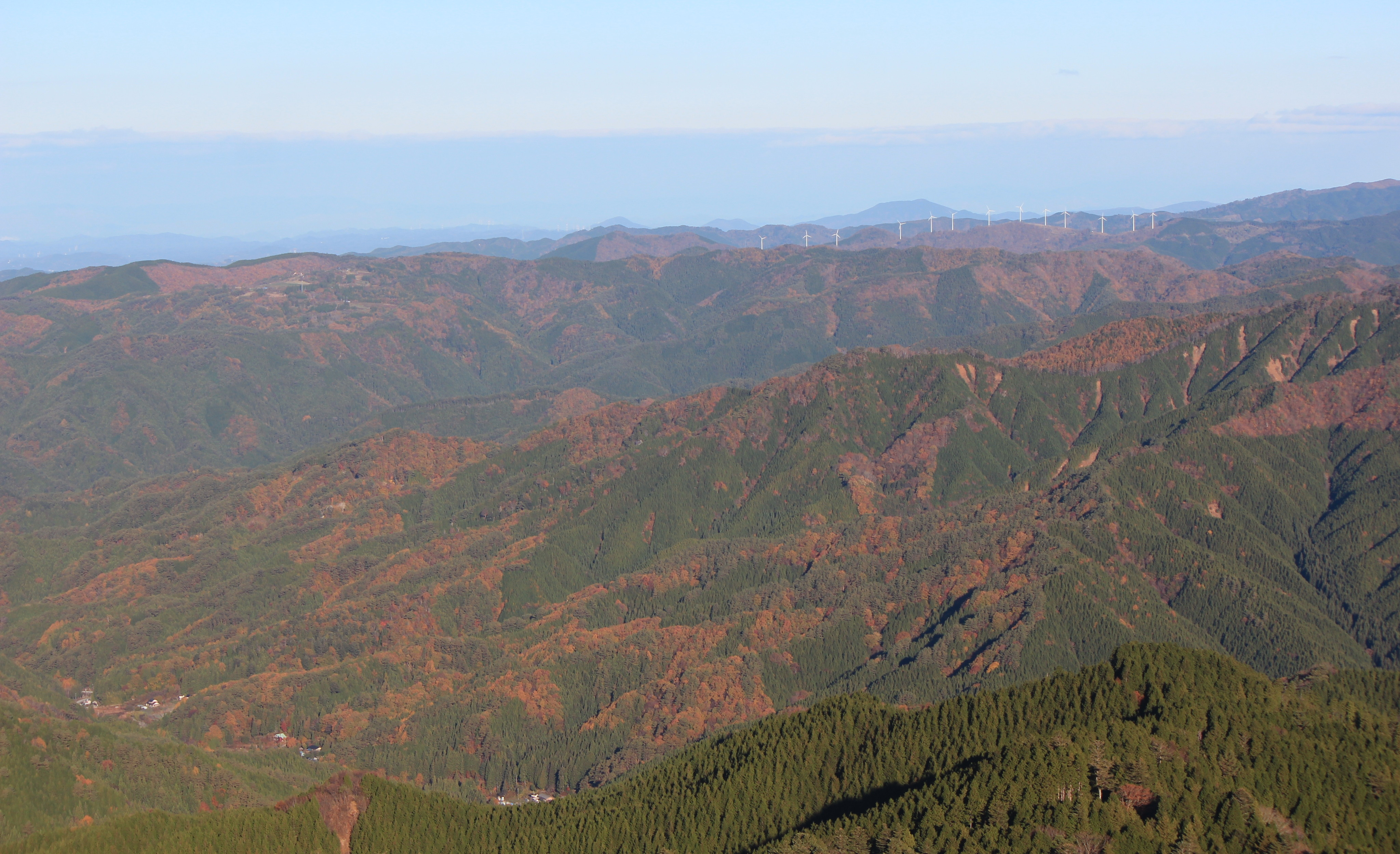 Mount Mikuni and Mount Ofuna with Kamiyahagi wind farms seen from Mount Chausu, in Japan.